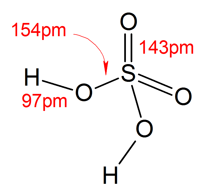 Structure of sulfuric acid